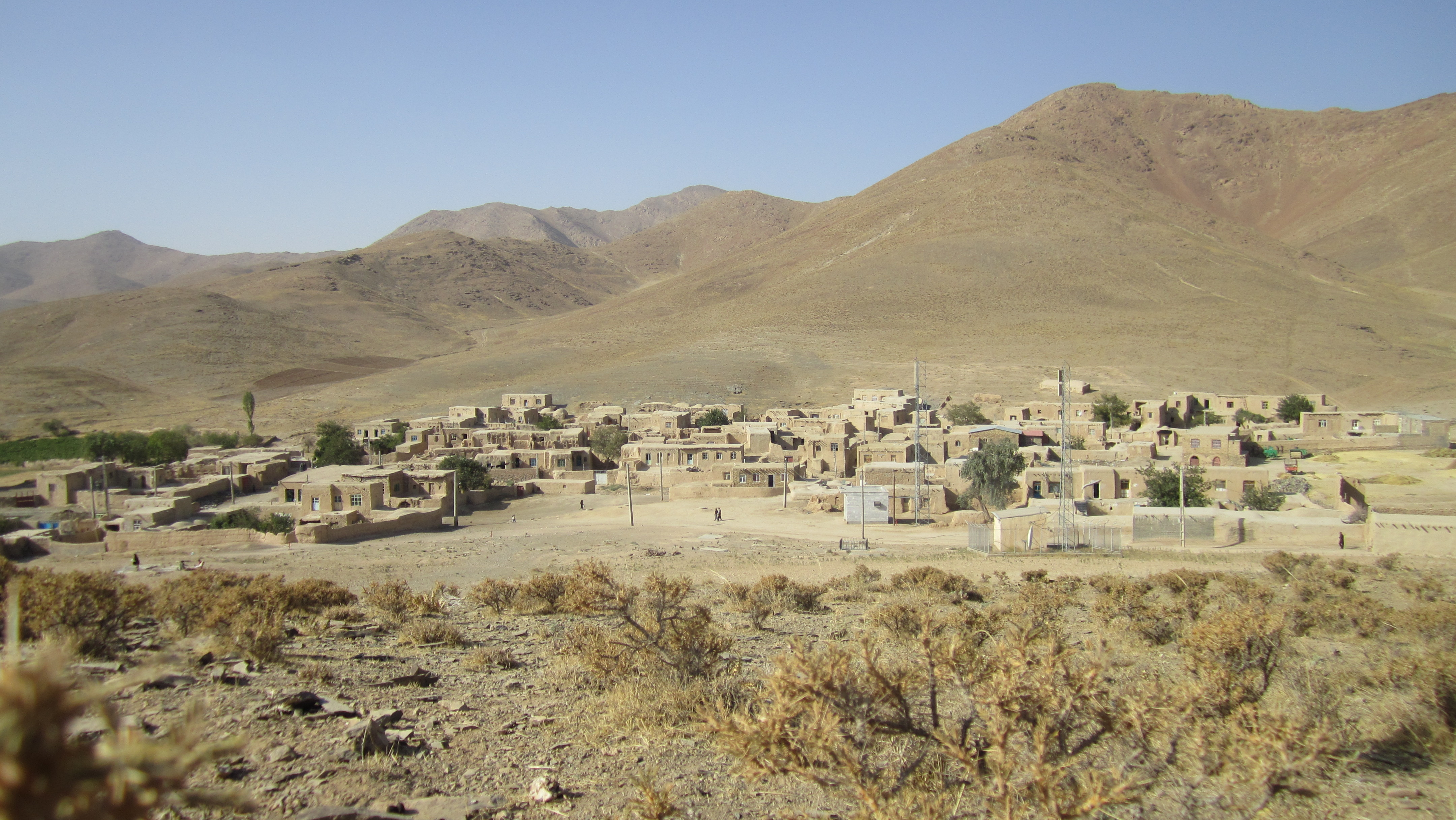 Khaarpahlou,Village, Markazi, Iran